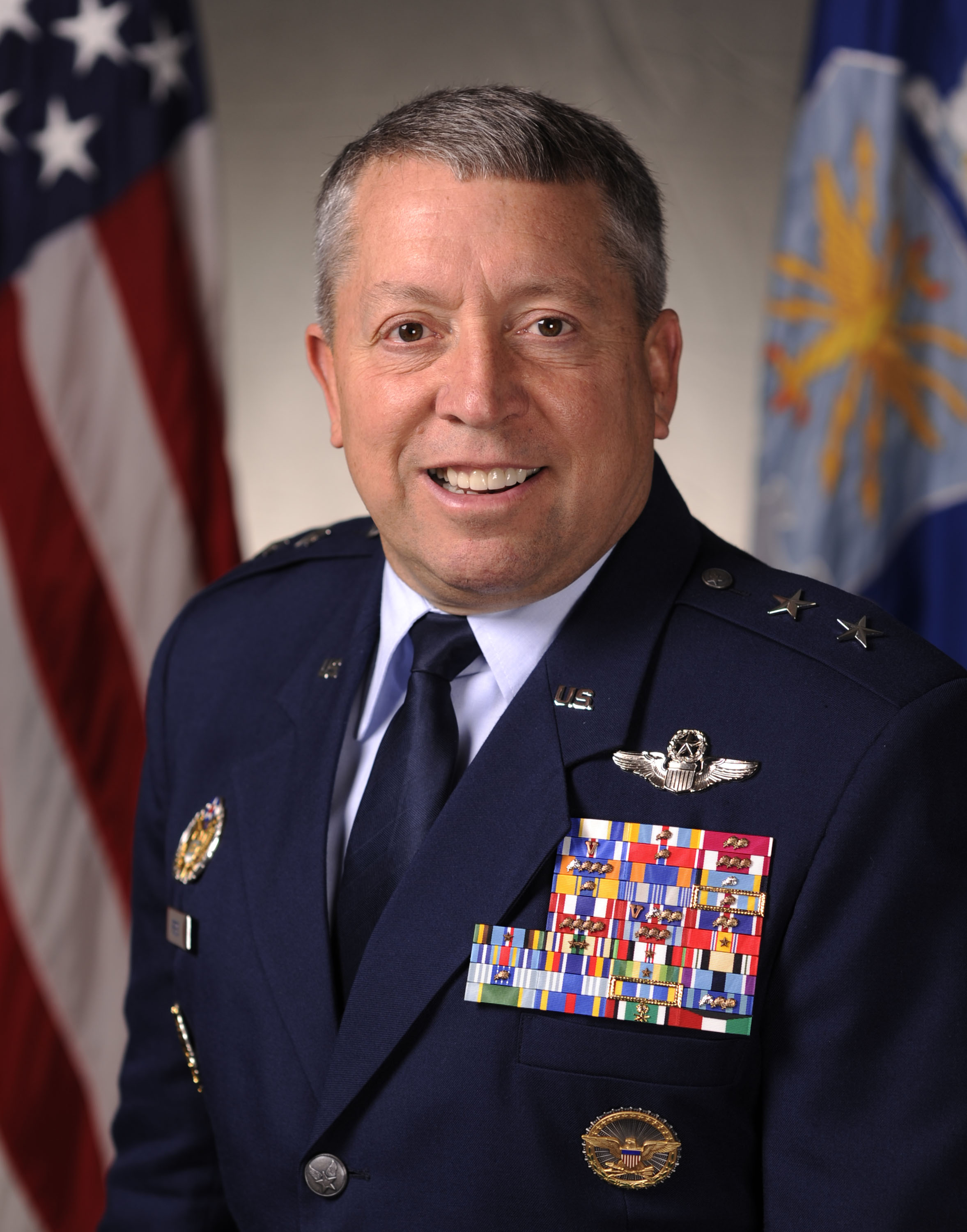 Greg Feest, Chief of Safety of the Air Force